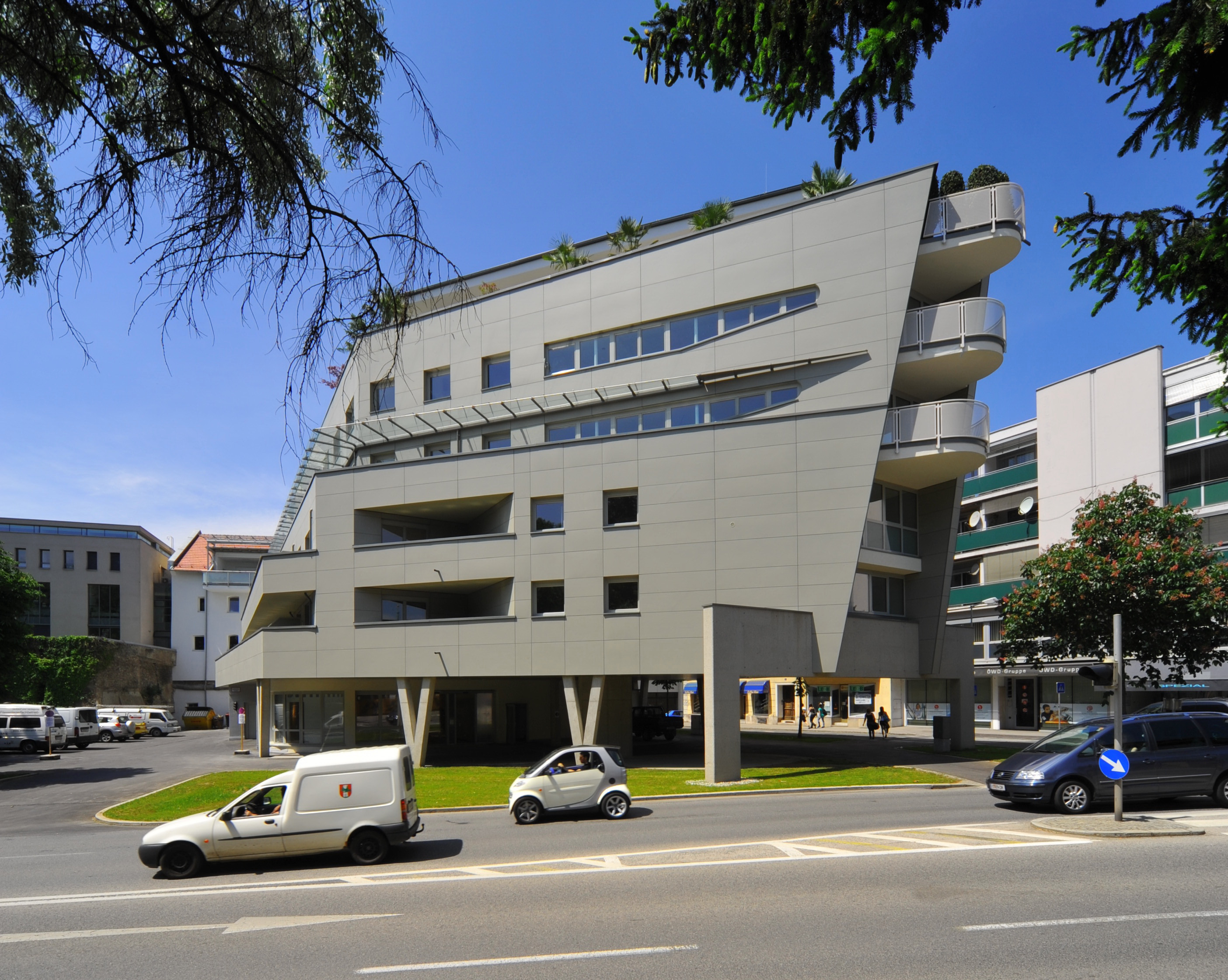 Residential building (built 2008-2009) on Voelkermarkter Ring #14, inner city, Klagenfurt, Carinthia, Austria, EU